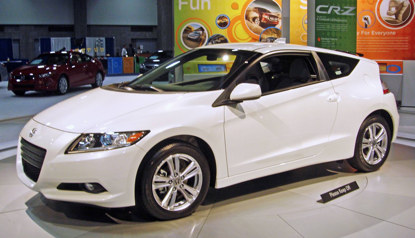 Honda CRZ Hybrid at the 2010 Washington Auto Show (D.C.)